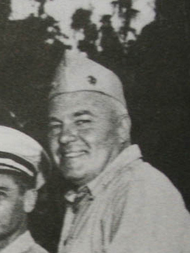 Henry Louis Larsen while military Governor of Guam